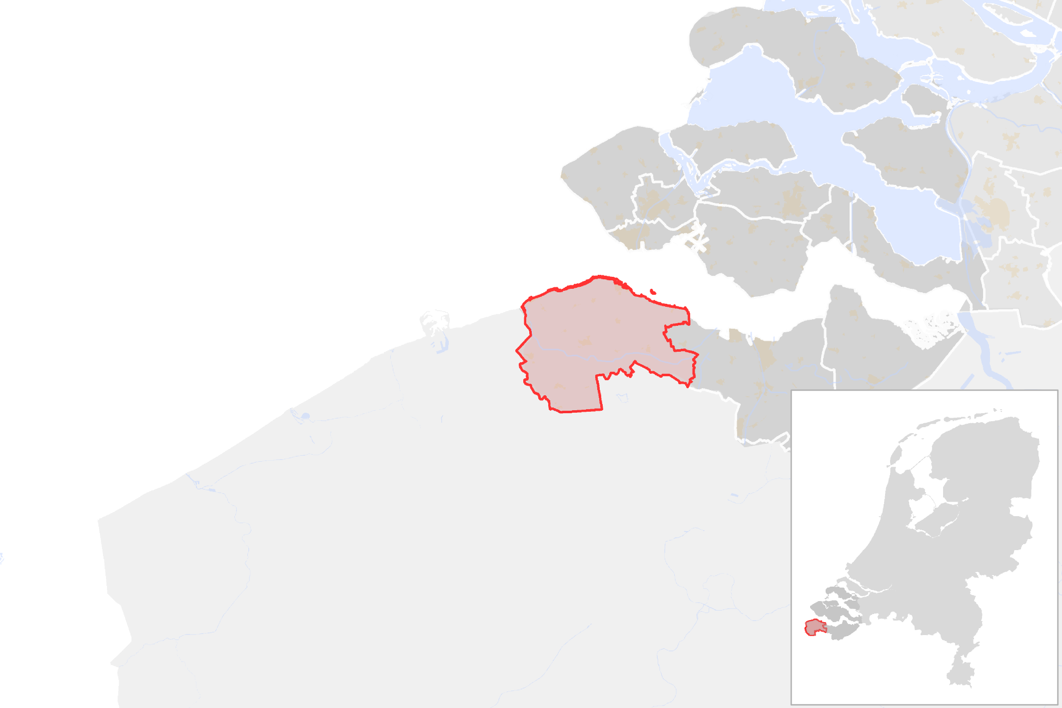 Locator map showing municipality boundary of one of the 390 Dutch municipalities (as of 2016)